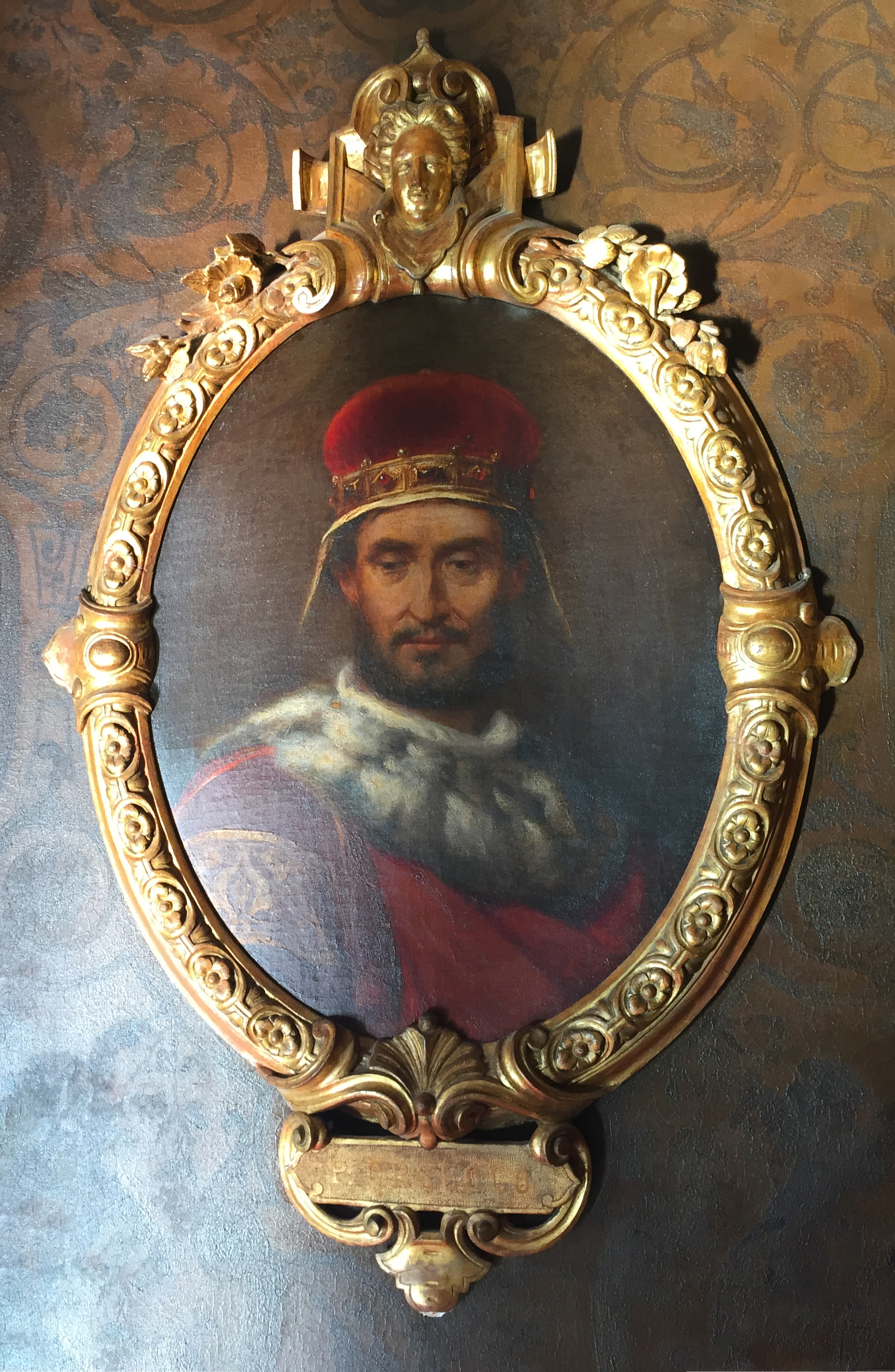 Caffè Florian is a coffee house situated in the Procuratie Nuove of Piazza San Marco, The Sala degli Uomini Illustri (Hall of the Illustrious Men) was decorated by Giulio Carlini with paintings of ten notable Venetians: Goldoni, Marco Polo, Titian, Francesco Morosini, Pietro Orseolo, Andrea Palladio, Benedetto Marcello, Paolo Sarpi, Vettor Pisani and Enrico Dandolo.